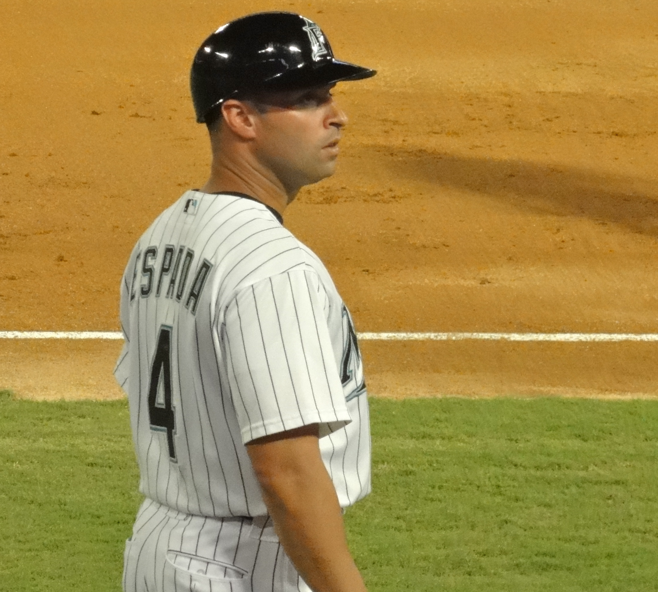 Florida Marlins 3rd base coach Joey Espada in 2011.